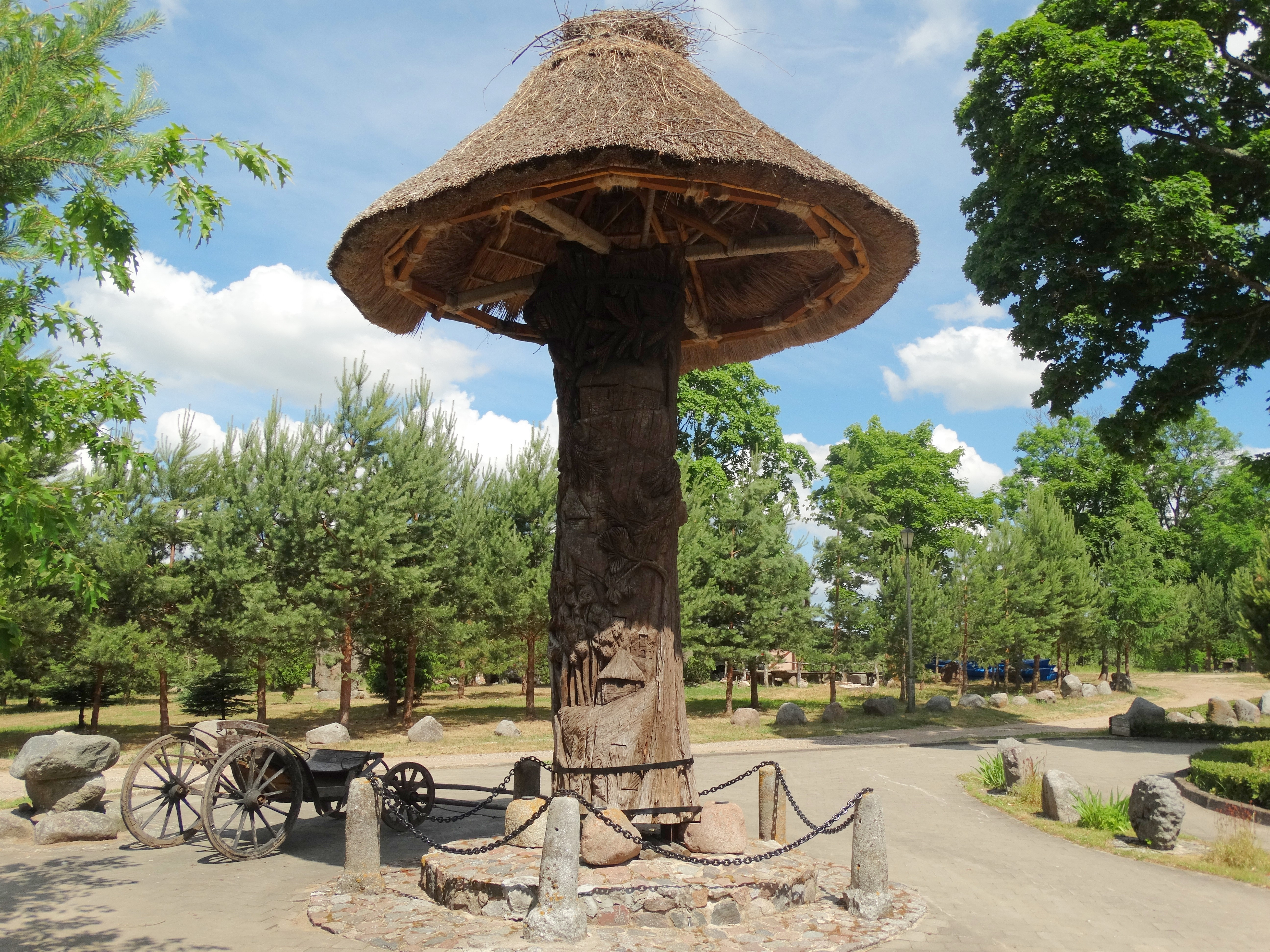 Palukštys manor, Raseiniai district, Lithuania